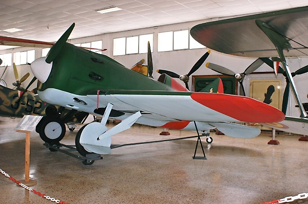 Polikarpov I-16 Mosca of the FARE. Probably the most advanced fighter in the world when it first flew. It dominated the skies over Spain in the Civil War - until the Bf-109 entered the fray. 4/10.